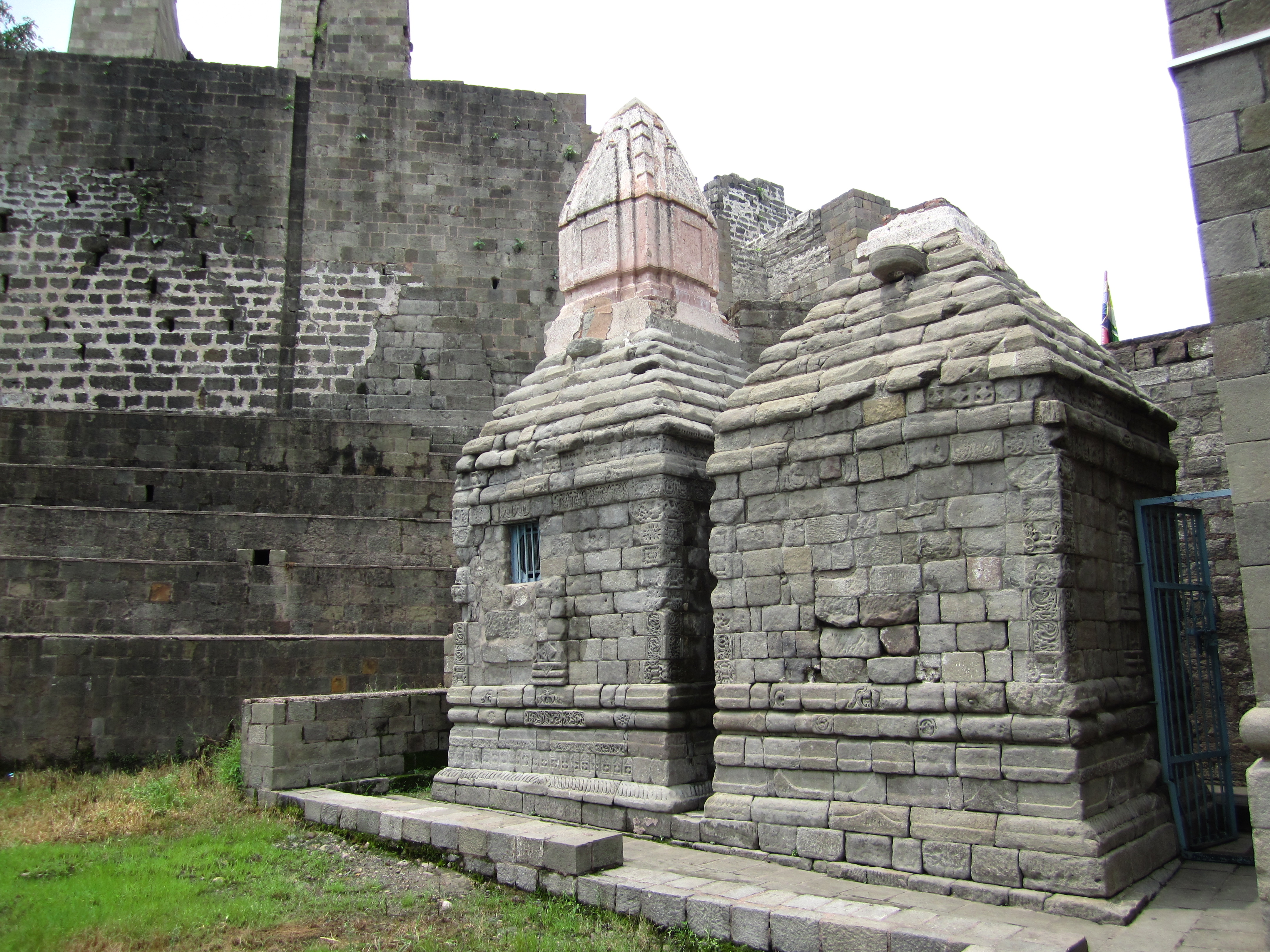 A Shrine at Kangra Fort.